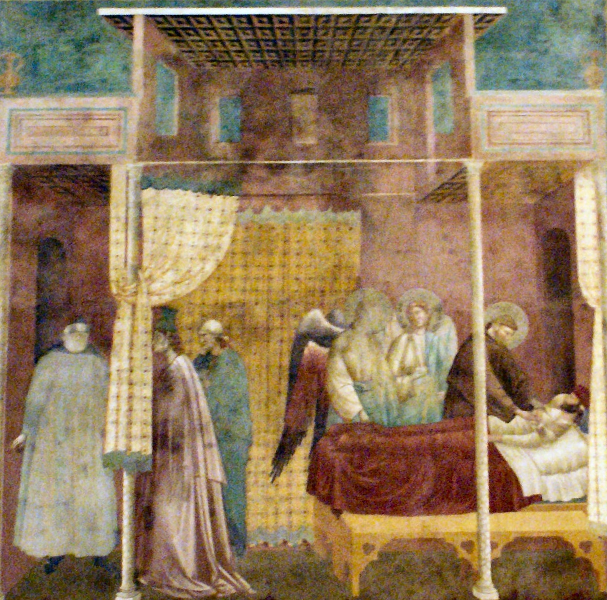 Giotto: The cure of the man from Ilerda,Basilica of Saint Francis,Assisi